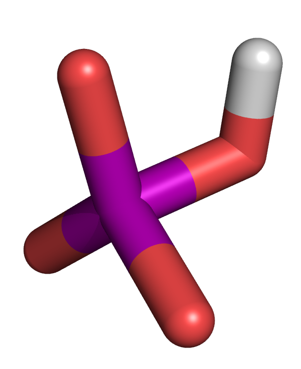 atomic structure of inorganic phosphate (HPO4[2-]), rendered with PyMol ( color coding for atoms: P, purple; O, red; H, white.